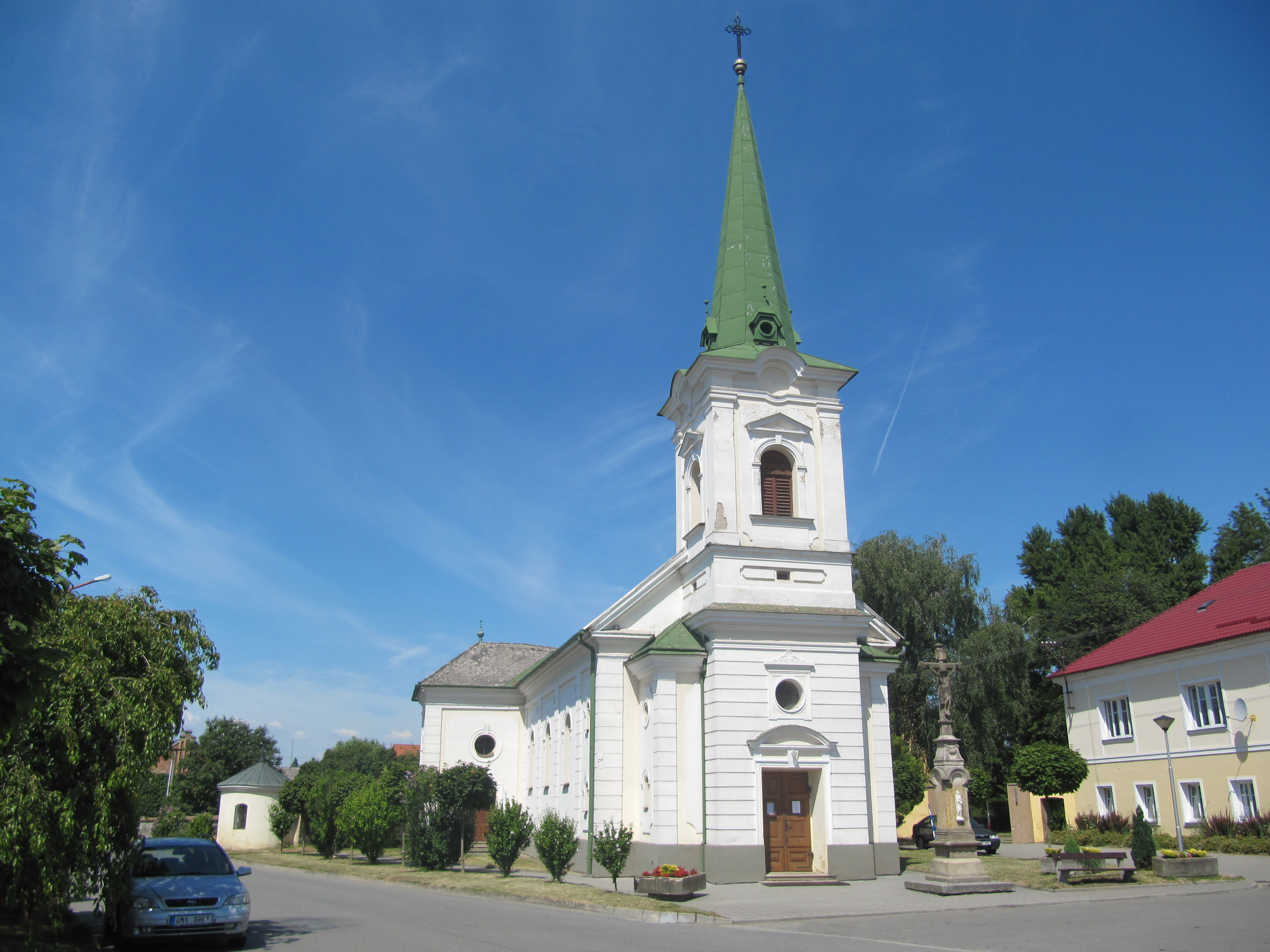 Říkovice, Přerov District, Czech Republic. Saint Anne church.